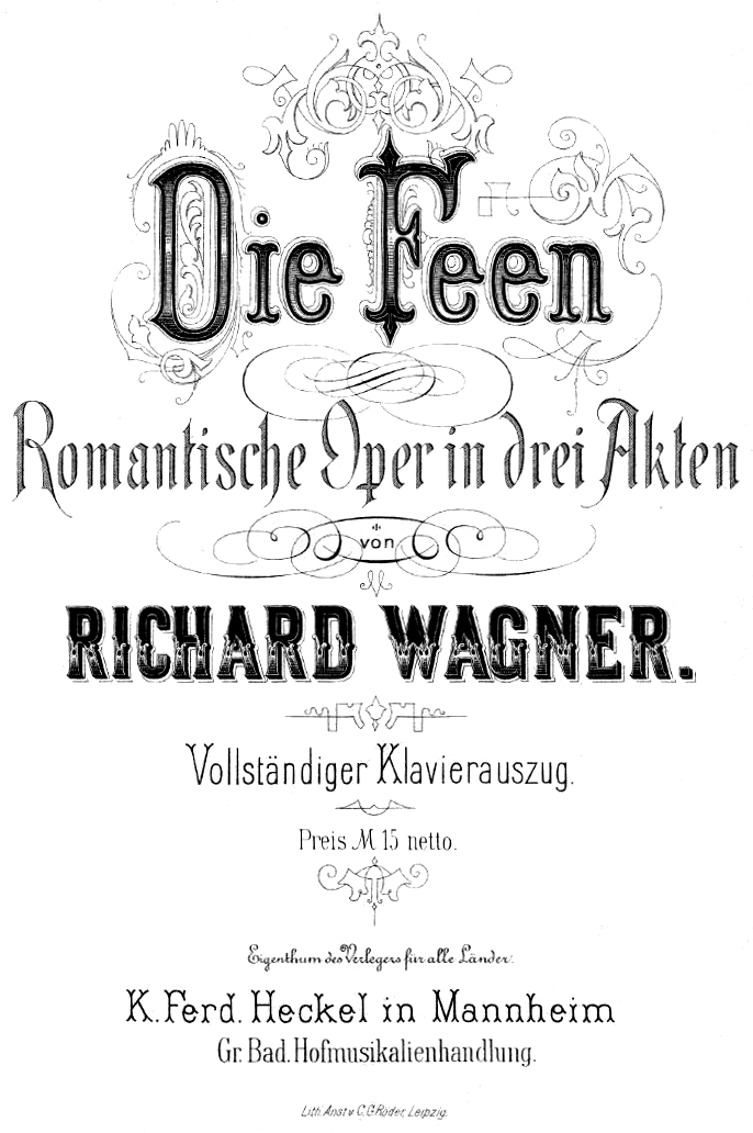 Richard Wagner - Die Feen - titlepage of the piano reduction, Mannheim 1888